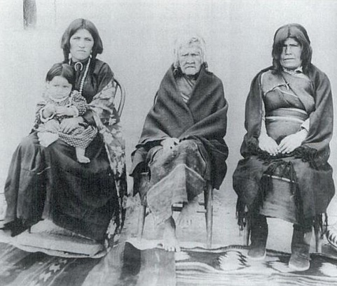 Nampeyo with her eldest daughter, Annie Healing; granddaughter, Rachel; and mother White Corn. The photograph was taken by Adam Clark Vroman and is held at The Southwest Museum in Los Angeles.